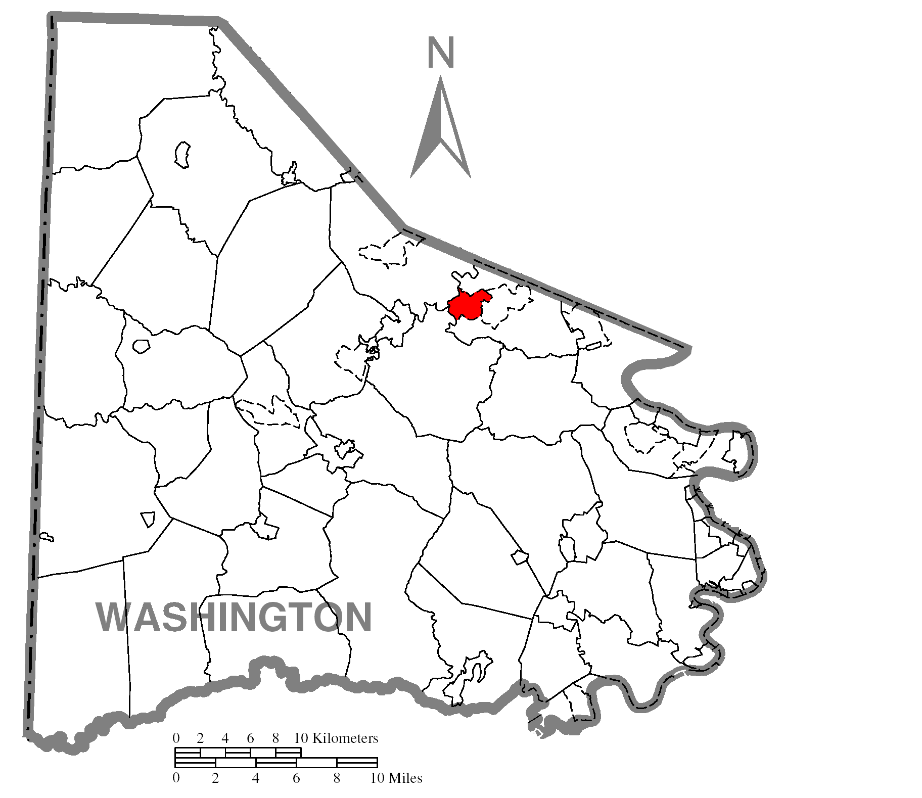 Map of Washington County higlighting Thompsonville.